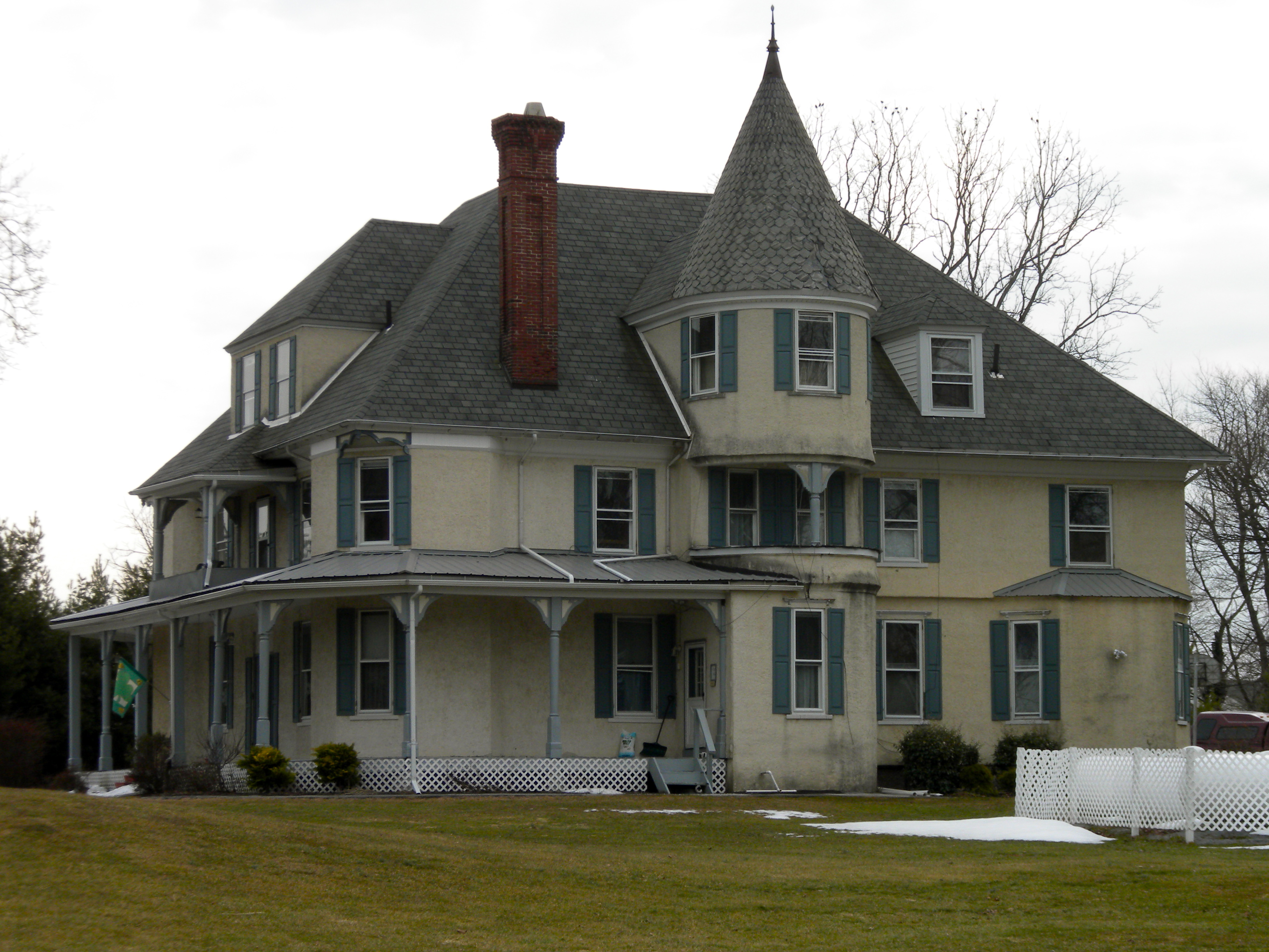 Isacc Pawlings House, in Chester County, PA. On NRHP since September 18, 1985. On Strasburg Road near Coatesville in East Fallowfield Township.